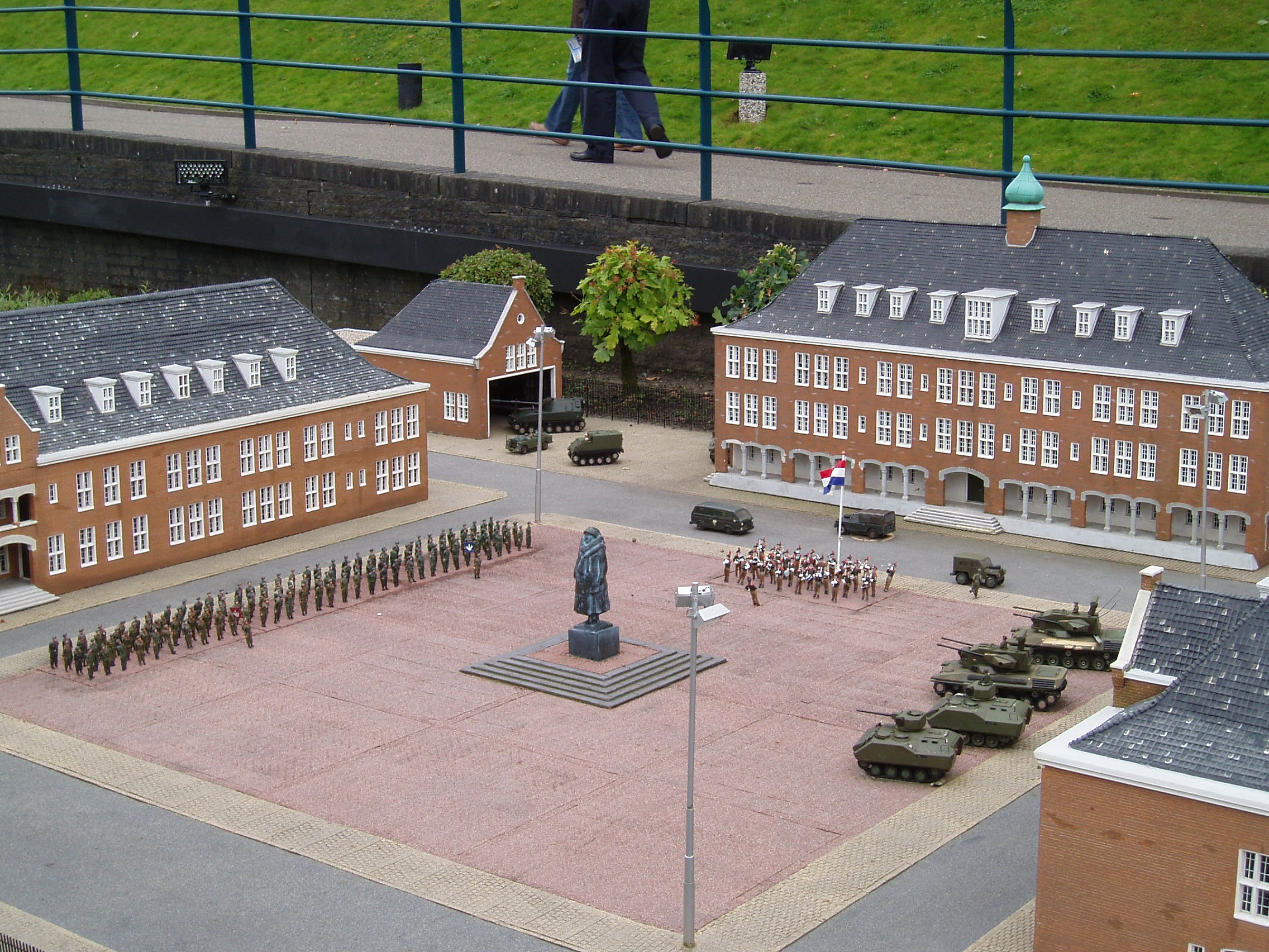 Madurodam in the Hague in the Netherlands